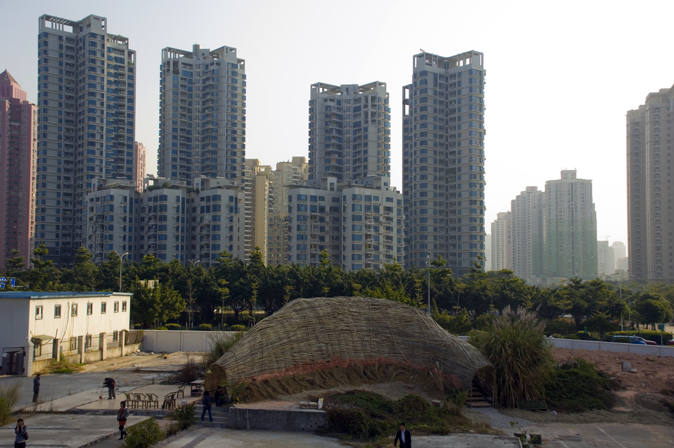 Bug Dome by WEAK! (architects Hsieh Ying-chun, Marco Casagrande, Roan Ching-yueh) in the SZHK Biennale 2009.